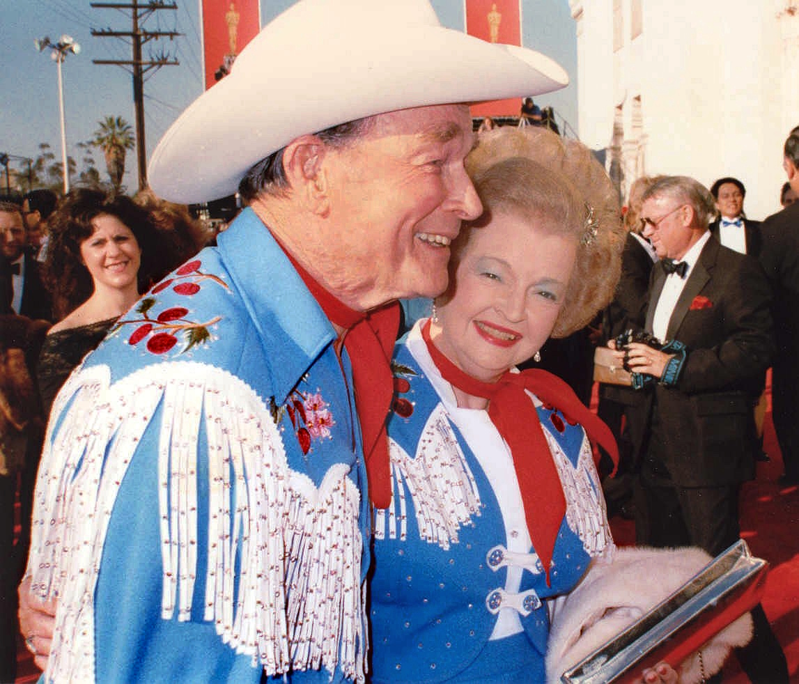 Roy Rogers and Dale Evans. Photo taken at 61st Academy Awards 3/29/89 - Governor's Permission granted to copy, publish or post but please credit "photo by Alan Light" if you can